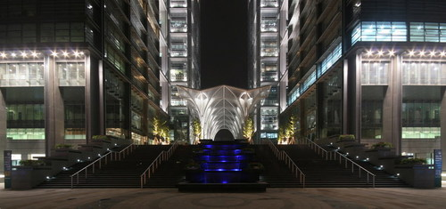 Haidian, Beijing, Tuspark. Photo by Itsmo